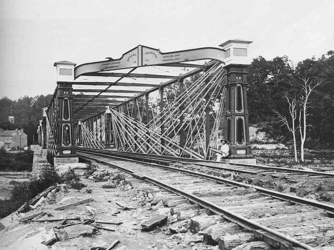 The flood of 1868 washed out the first iron Bollman bridge at this location, necessitating the replacement pictured in this photo. This is the third bridge on the second alignment of the Baltimore and Ohio Railroad, which war in use since 1839. This view looks from the west abutment back toward the town Alberton, which was before Elysville and is today Daniels. The cupola seen in the distant left is that of the mill. Note the ties are roughly hewn, and hand tools can be seen in the foreground left. This could indicate the tracks had been recently laid over the new, replacement bridge. Meanwhile, on the right, a man with a wooden leg relaxes.